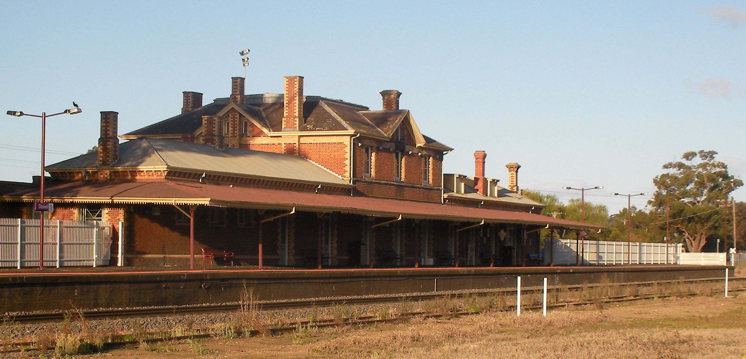 Stawell Railway Station viewed from the south